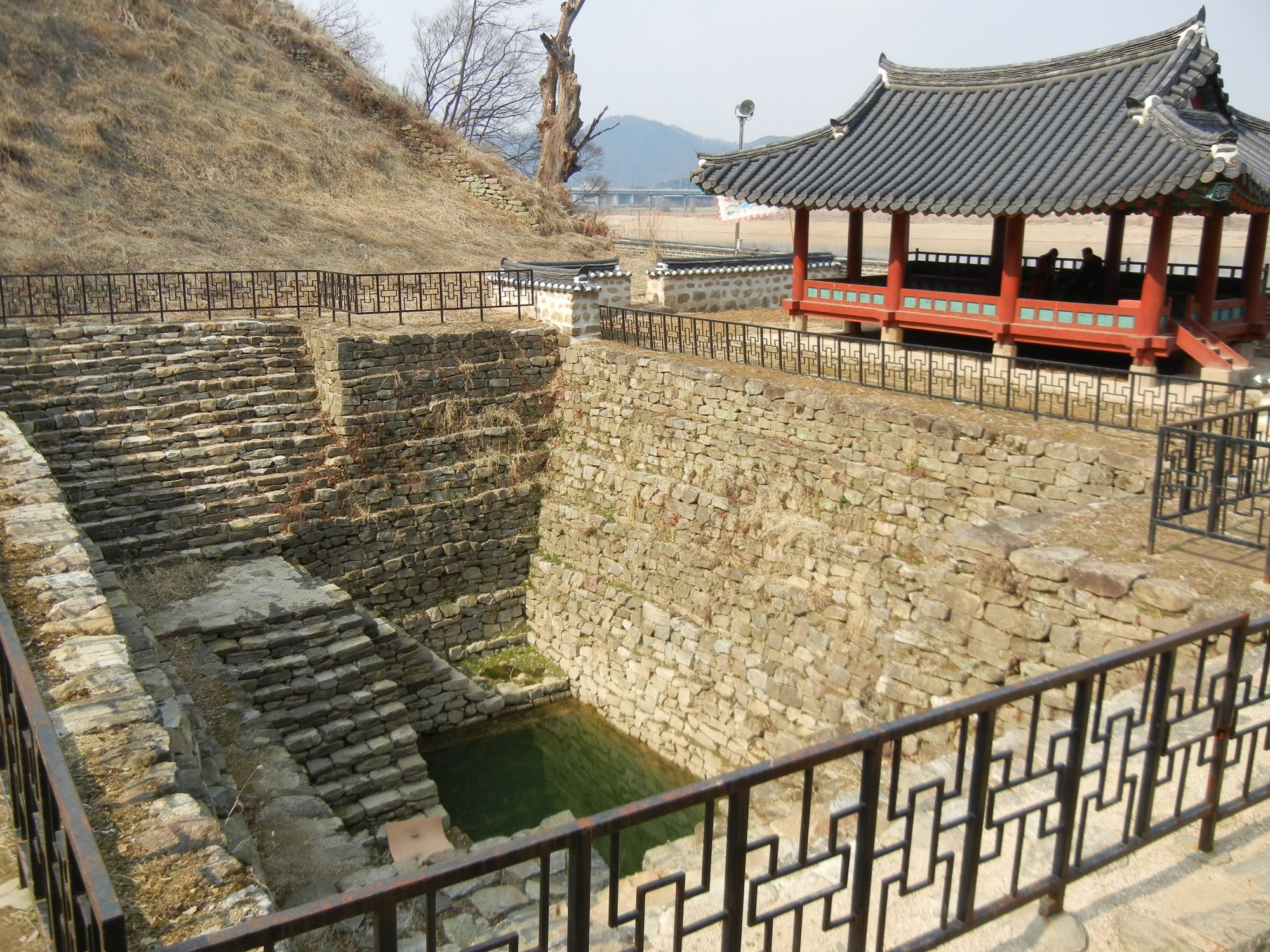 Lotus Pond and Manharu Pavillion in Gongsan Fortess, Gongju, South Korea, Gongju.